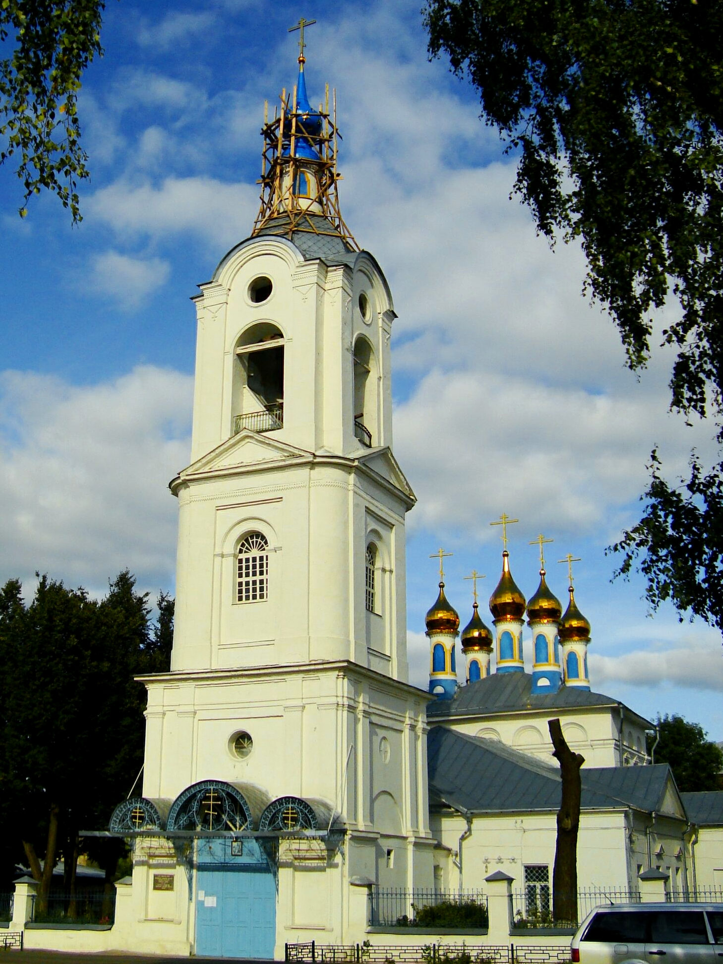 Pokrov town, Pokrovski cathedral belltower